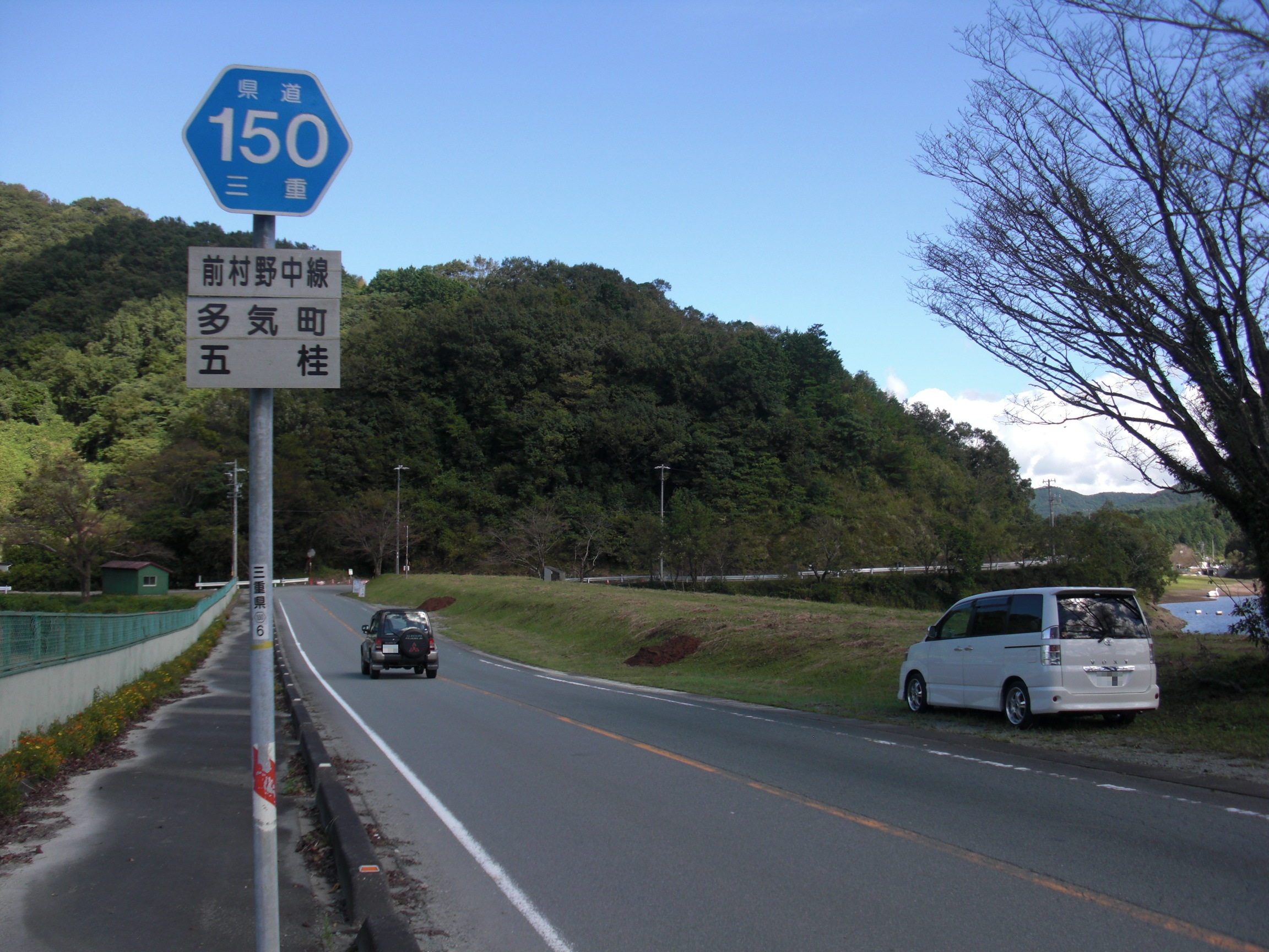 This is a landscape of the Mie prefectural road No.150 Maemura Nonaka Line in Gokatsura, Taki-cho, Taki-gun, Mie, Japan.